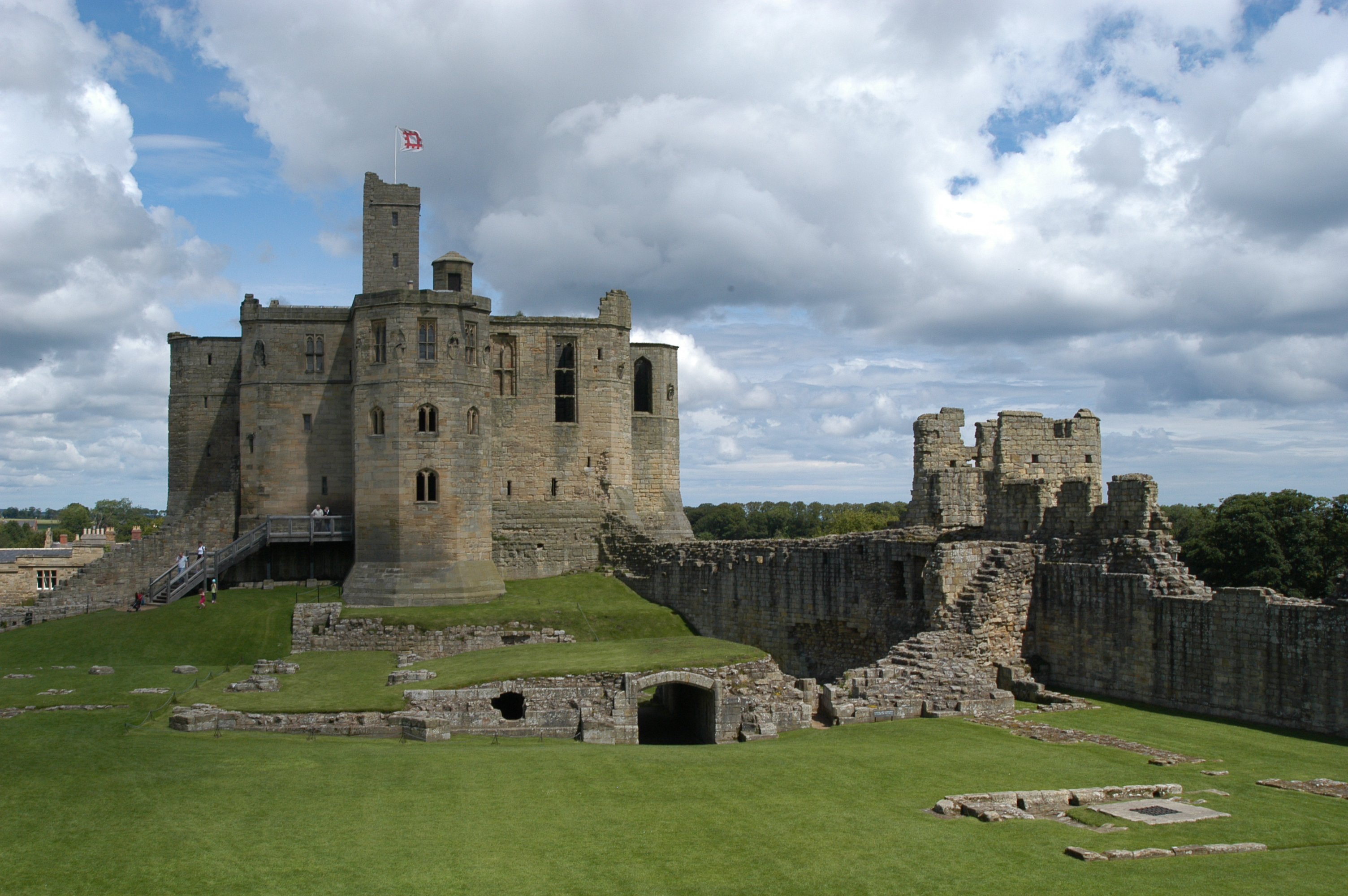 The keep of Warkworth Castle